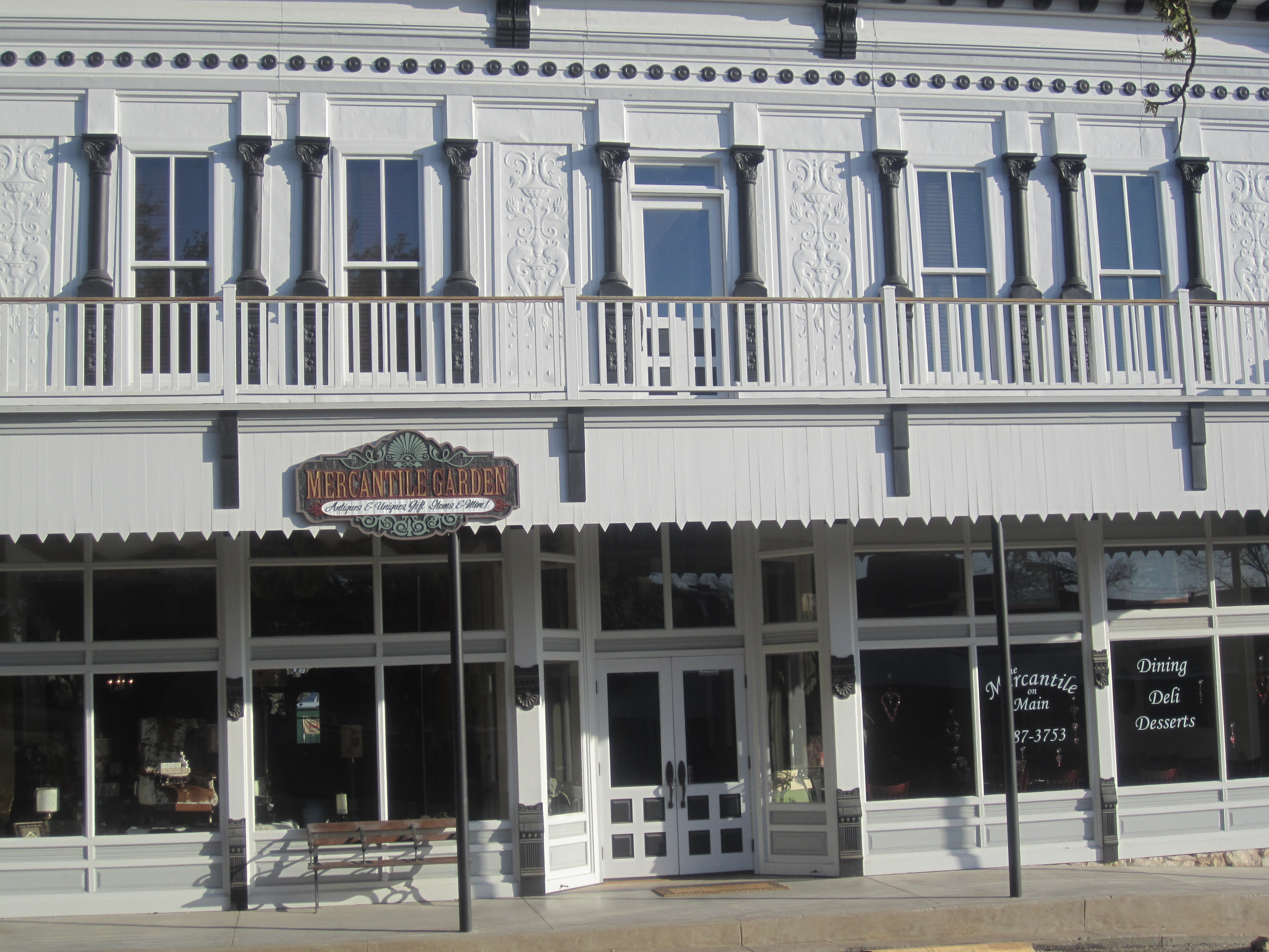 I took photo with Canon camera in Sonora, TX.